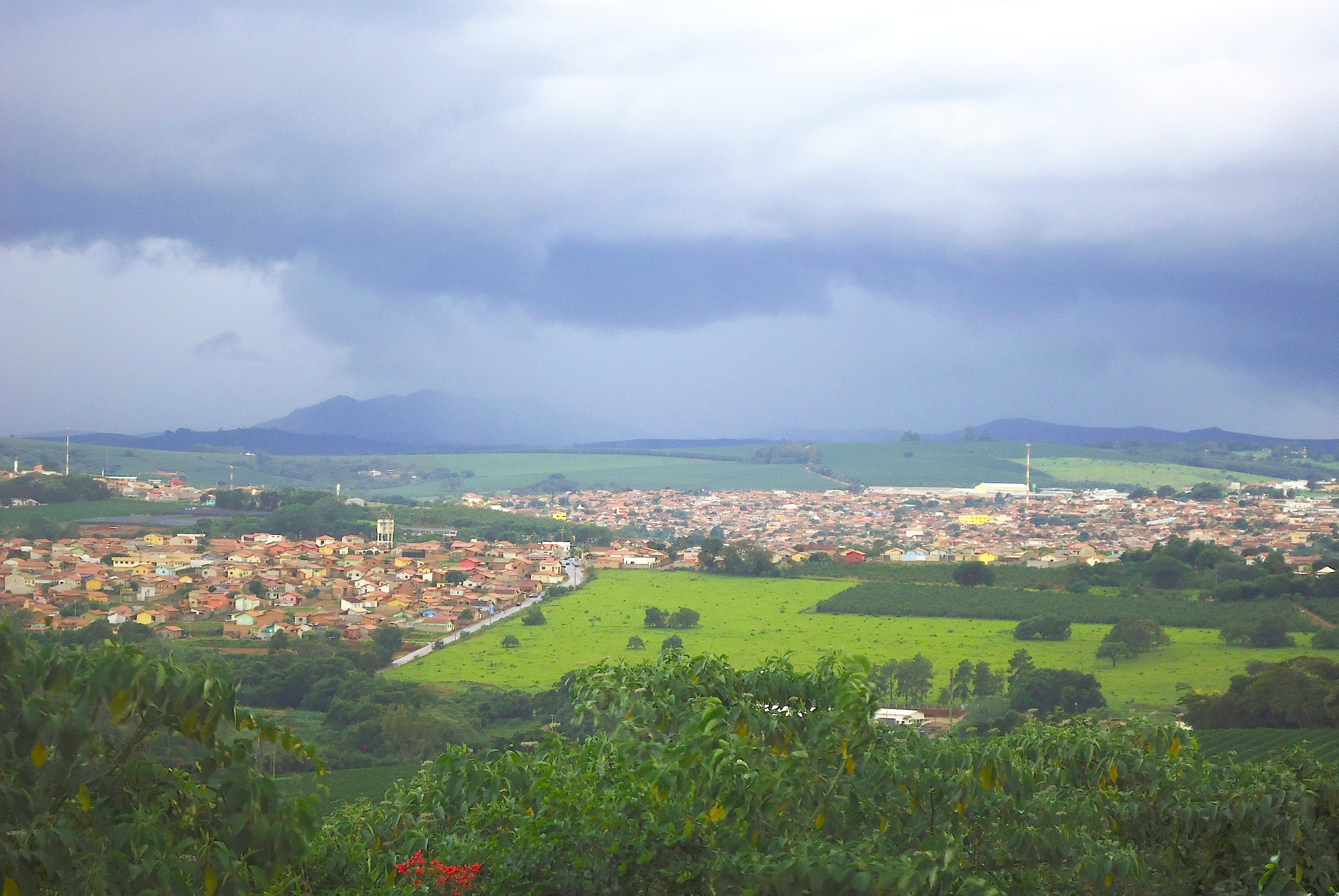 Unstable weather at Três Pontas municipality, Brazil.